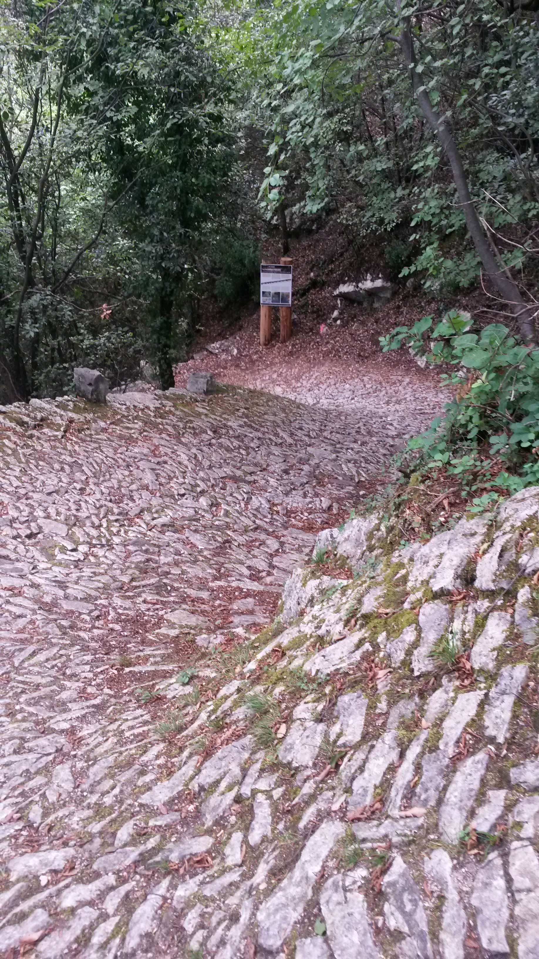 Mule path (mulattiera) made from limestone near Malcesine (Garda lake, Italy)